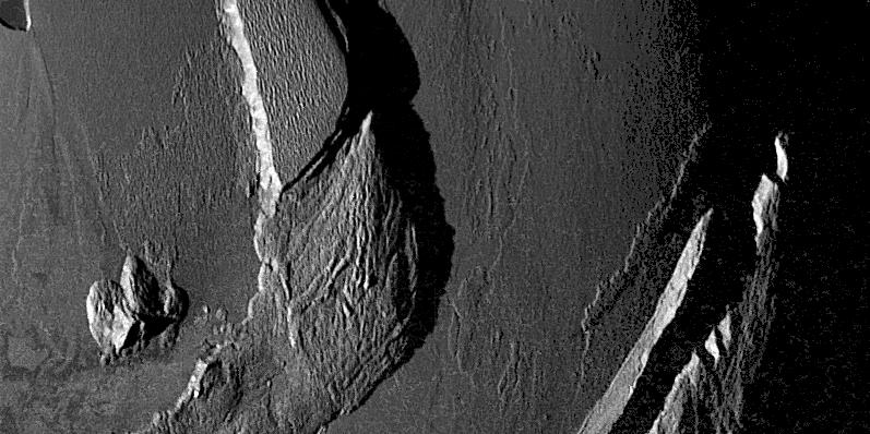 This image taken by NASA's Galileo spacecraft during its close flyby of Jupiter's moon Io on November 25, 1999 shows some of the curious mountains found there. The Sun is illuminating the scene from the left, and because it is setting, the Sun exaggerates the shadows cast by the mountains. By measuring the lengths of these shadows, Galileo scientists can estimate the height of the mountains. The mountain just left of the middle of the picture is 4 kilometers (13,000 feet) high and the small peak to the lower left is 1.6 kilometers (5,000 feet) high.